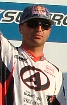 1 Marc Willers (NZL) 2 Michal Prokop (CZE) 3 Pablo Gutierrez (FRA)